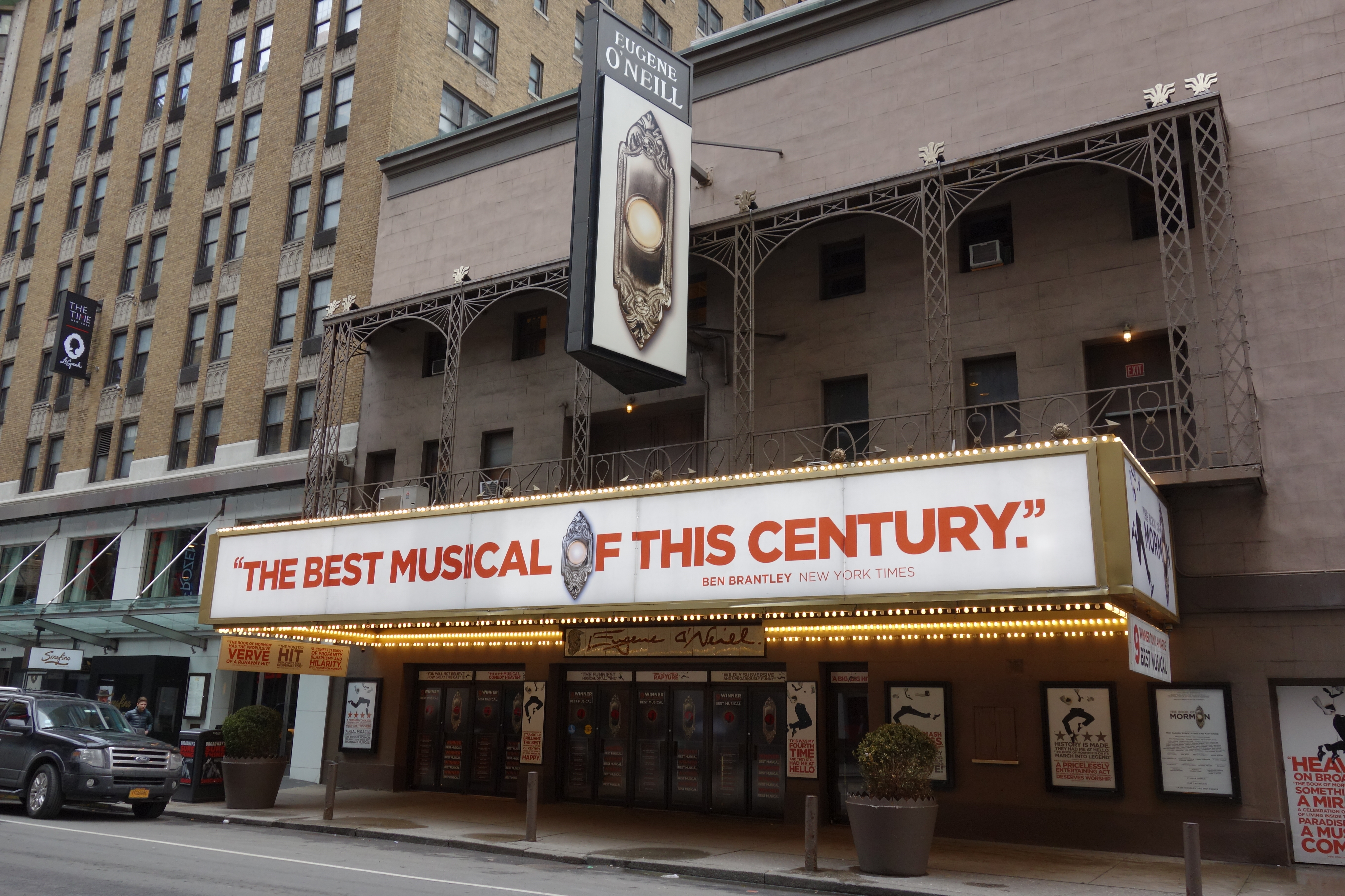 The Eugene O'Neill Theatre, hosting The Book of Mormon, on 49th Street between 8th Avenue and Broadway in the Theater District, Midtown Manhattan.